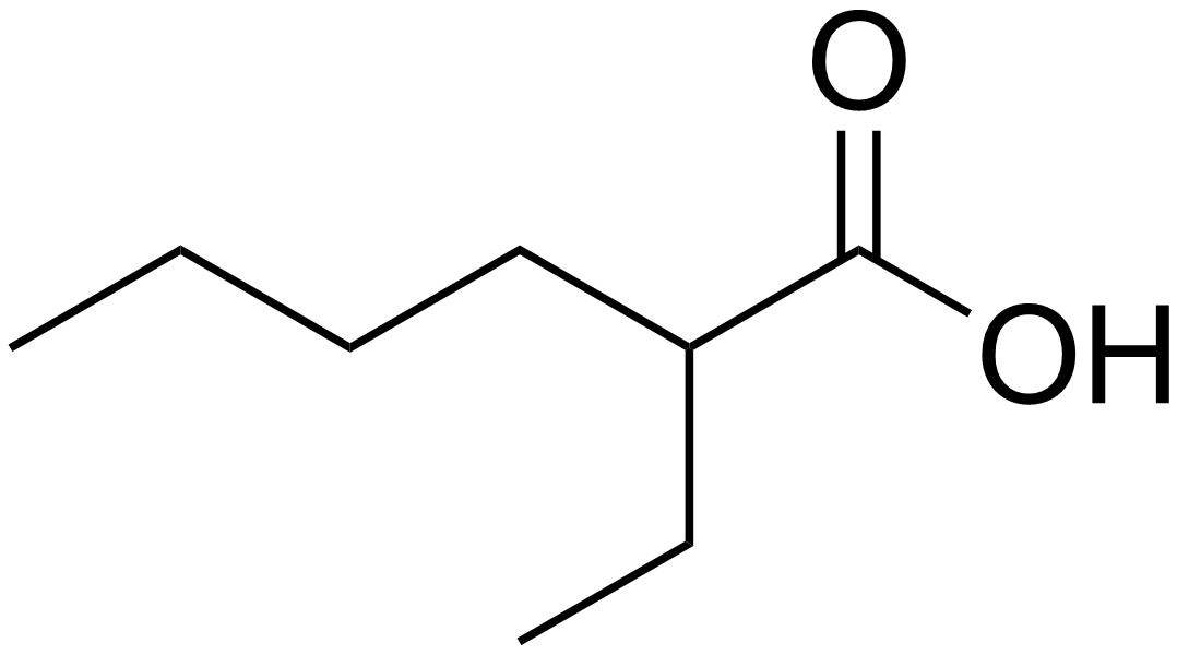 Chemical structure of 2-ethylhexanoic acid